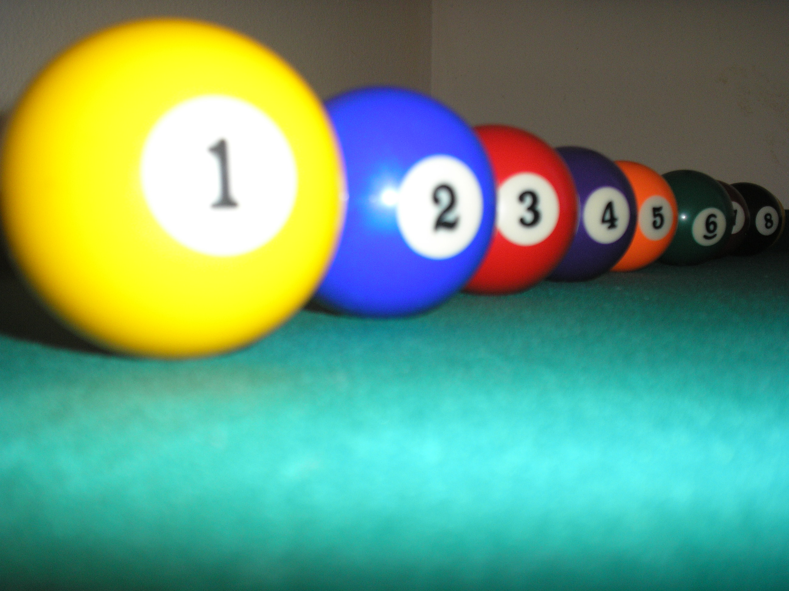 Pool balls arranged